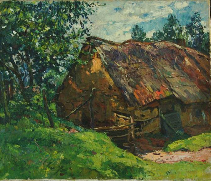 Fermette (brighter version, from a photograph by user "Wakefield191"